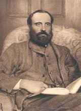 Image from 1890. Out of copyright. From: her. Though site hints at copyright the image has been out of copyright for decades and is used freely as a result by books, magazines and other sources.